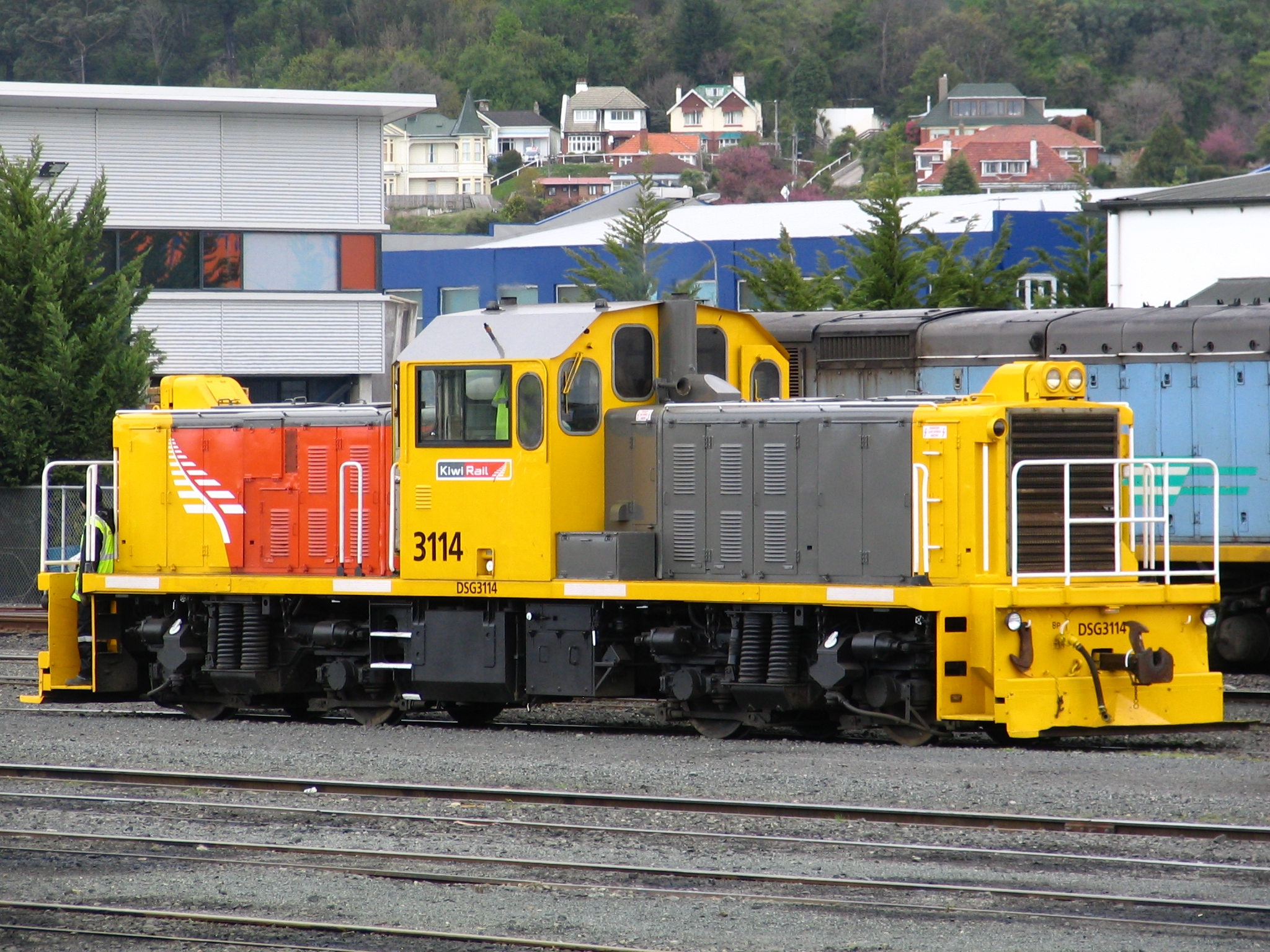 New Zealand Railways locomotive DSG 3114, in Dunedin, New Zealand